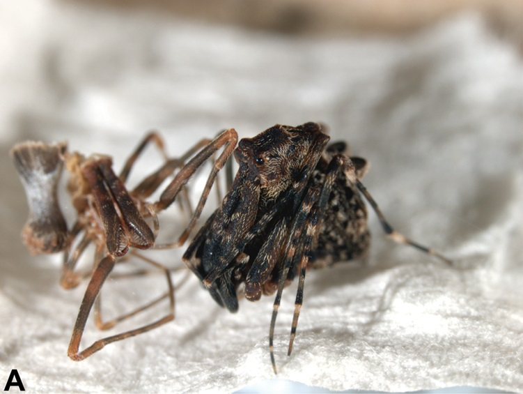 Austrarchaea griswoldi from Eungella National Park: A newly-moulted female with recently cast cuticle.